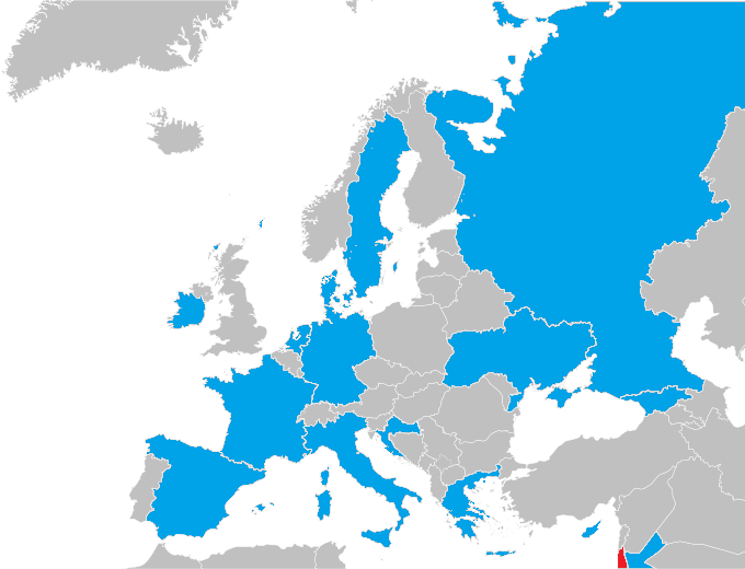 Arkia Israel airlines destinations